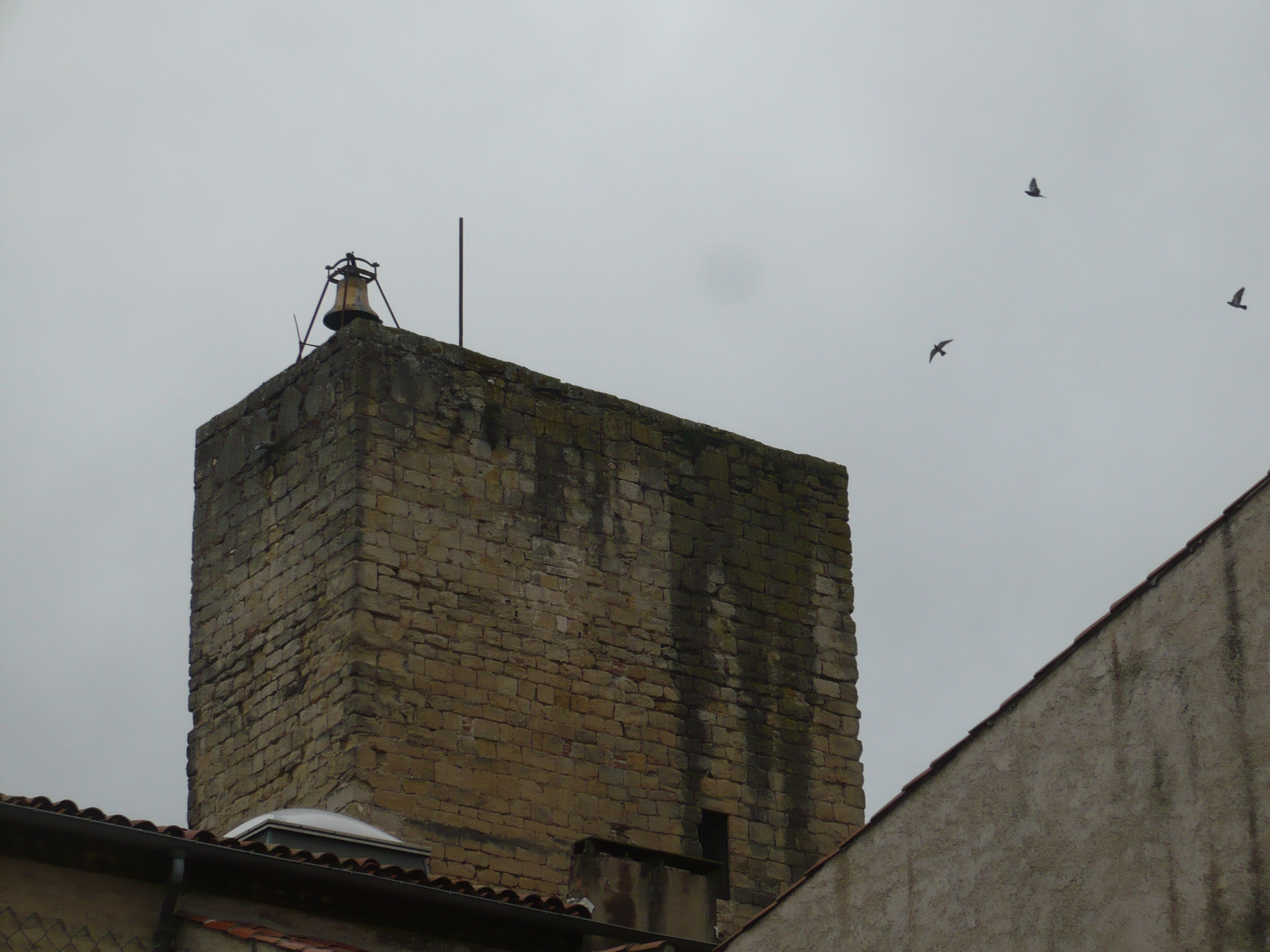 Castres